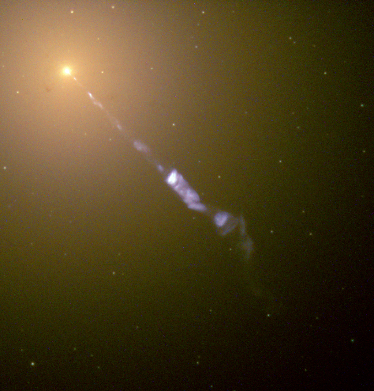 The jet emerging from the galactic core of M87 (NGC 4486). The jet extends to about 20 arc seconds (absolute length ca. 5 kly). Composite image of Hubble Telescope observations. The galaxy is too distant for the Hubble Telescope to resolve individual stars; the bright dots in the image are star clusters, assumed to contain some hundreds of thousands of stars each. Original caption: "Black Hole-Powered Jet of Electrons and Sub-Atomic Particles Streams From Center of Galaxy M87" The data used in this image was collected with Hubble's Wide Field Planetary Camera 2 in 1998 by J.A. Biretta, W.B. Sparks, F.D. Macchetto, and E.S. Perlman (STScI). This composite image was compiled by the Hubble Heritage team based on these exposures of ultraviolet, blue, green, and infrared light.